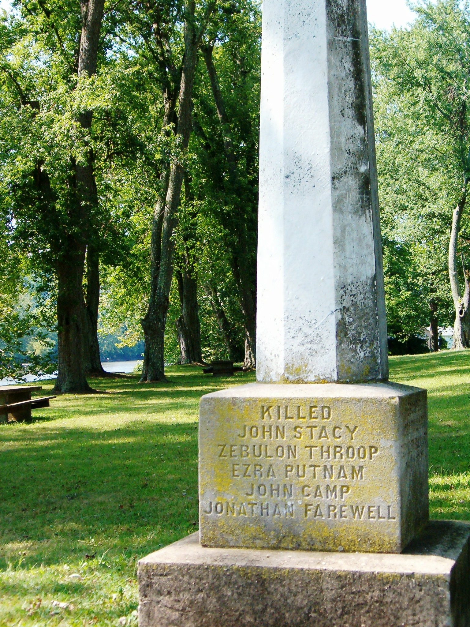 Obelisk monument at Big Bottom State Memorial Park, located along the Muskingum River near Stockport, Ohio. The obelisk marks the site of the Big Bottom massacre of January 1791. Photo date - August 2008. I took this photo and release to the public domain. User:ColWilliam ColWilliam (User talk:ColWilliam talk) 01:20, 1 September 2008 (UTC) Obelisk monument at Big Bottom State Memorial Park, located along the Muskingum River near Stockport, Ohio. The obelisk marks the site of the Big Bottom massacre of January 1791. Photo date - August 2008. I took this photo and release to the public domain. ColWilliam (talk) 01:20, 1 September 2008 (UTC)